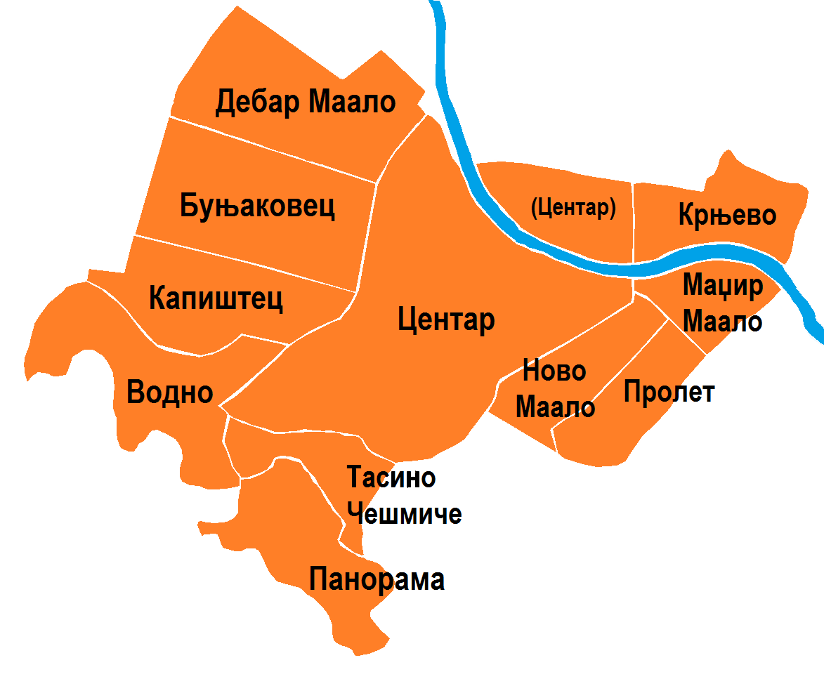 Division of the municipality based on the settlements